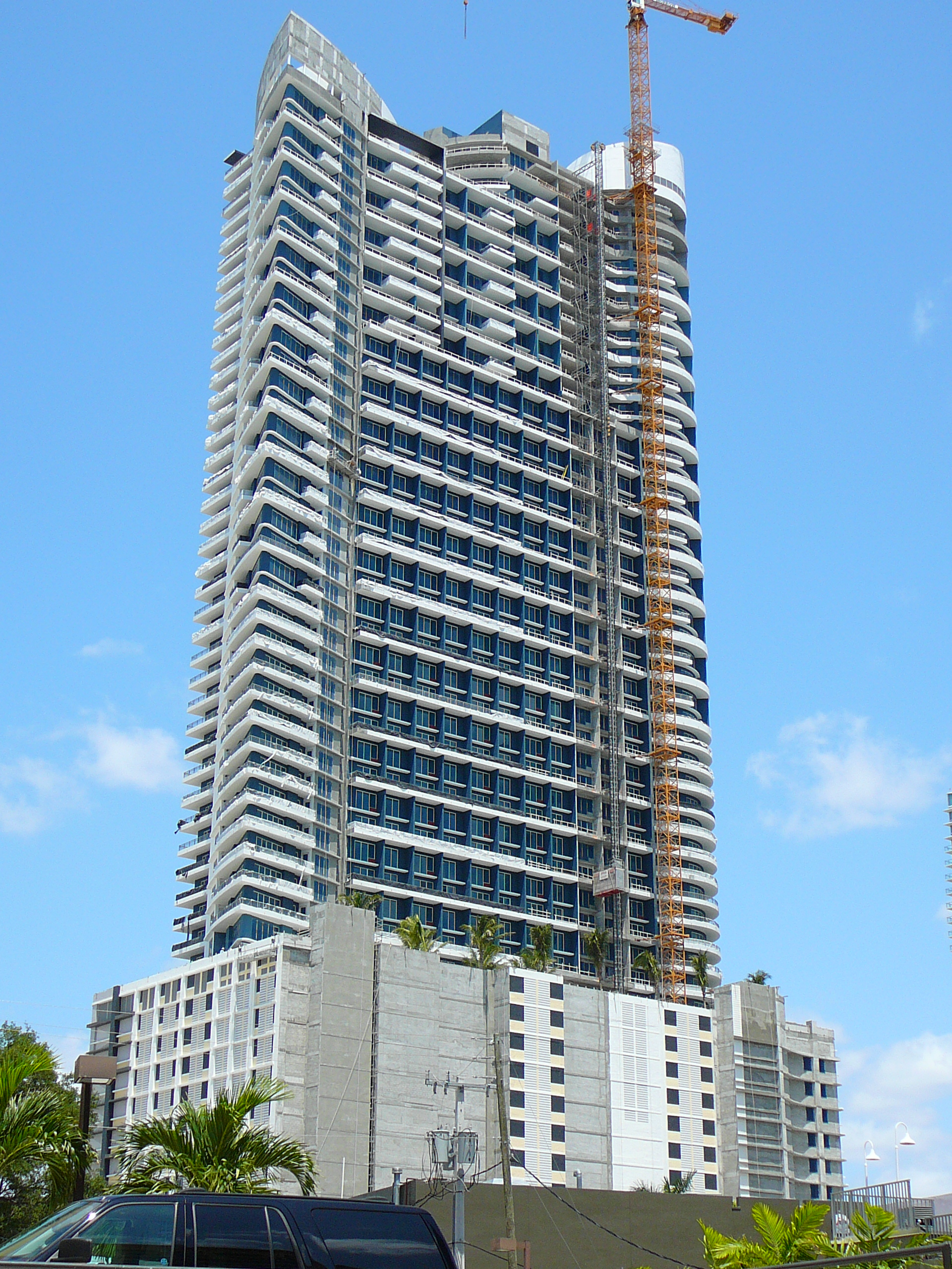 Digital photo taken by Marc Averette. The Infinity at Brickell tower in downtown Miami 5/14/2008